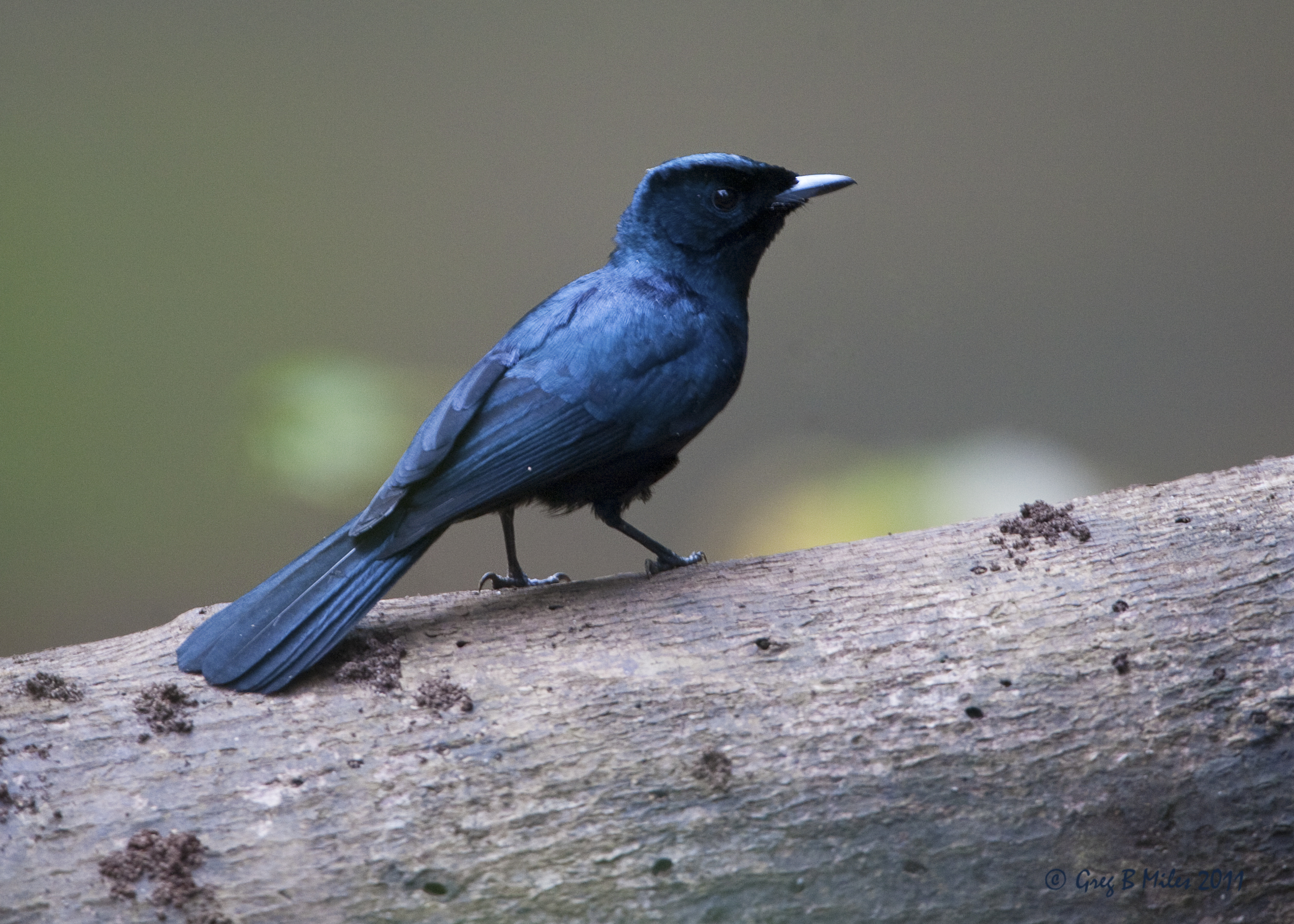 Shining Flycatcher